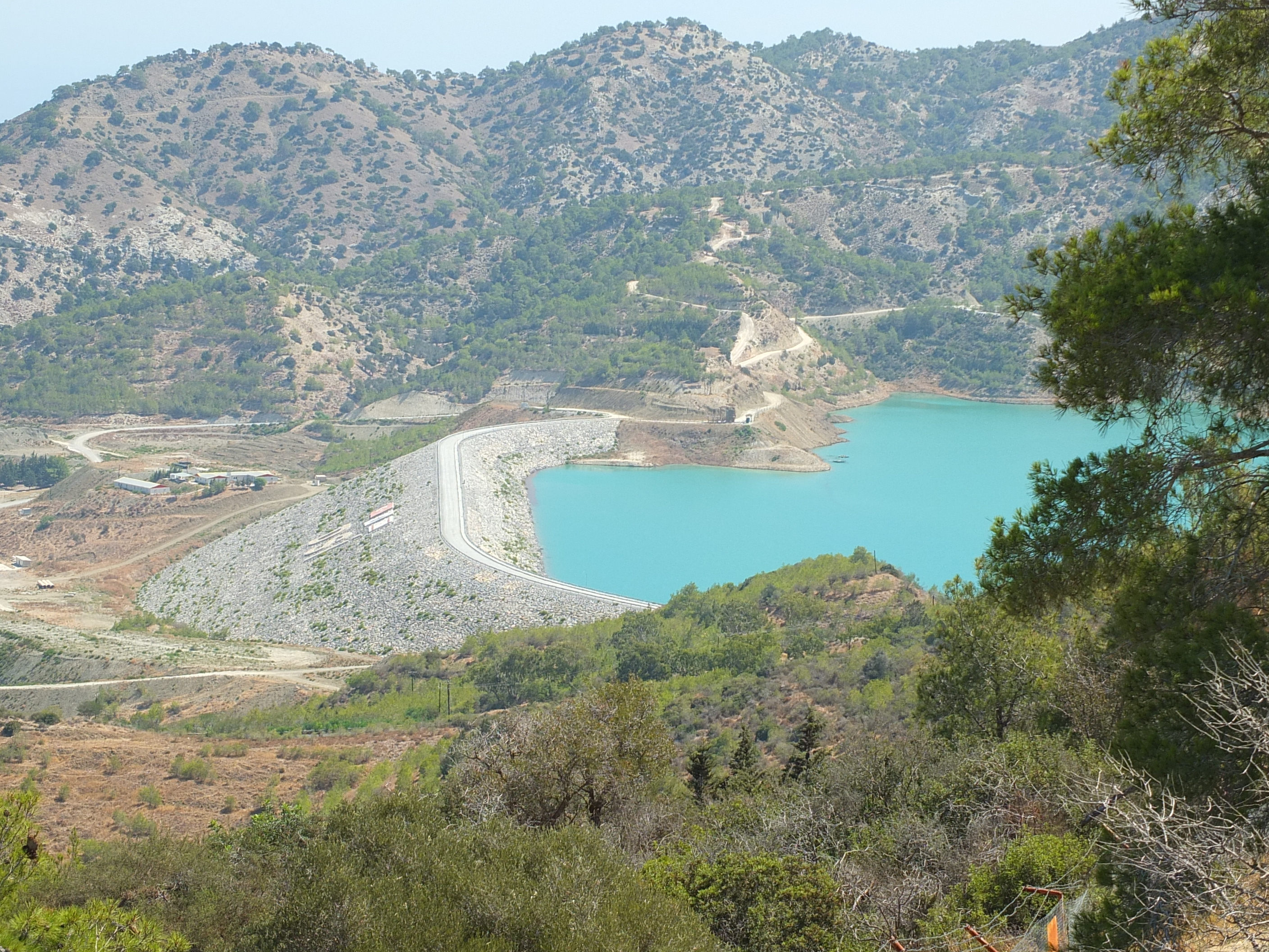 Geçitköy Dam and reservoir close to the city of Kyrenia (Girne), a part of the Northern Cyprus Water Supply Project.